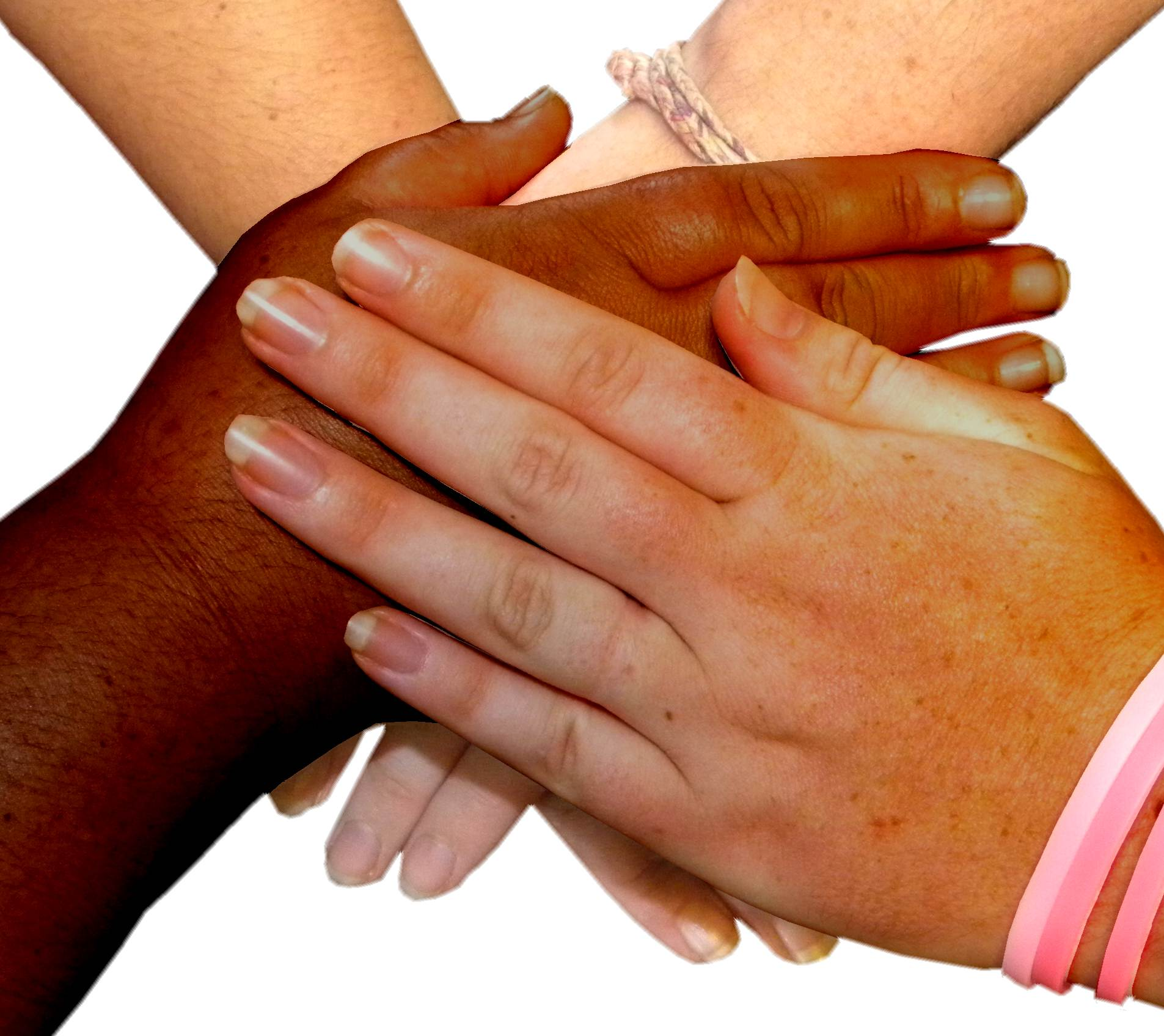 Four hands overlaying